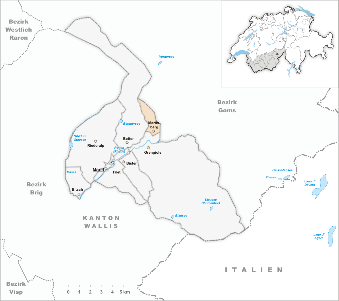 Municipality Martisberg